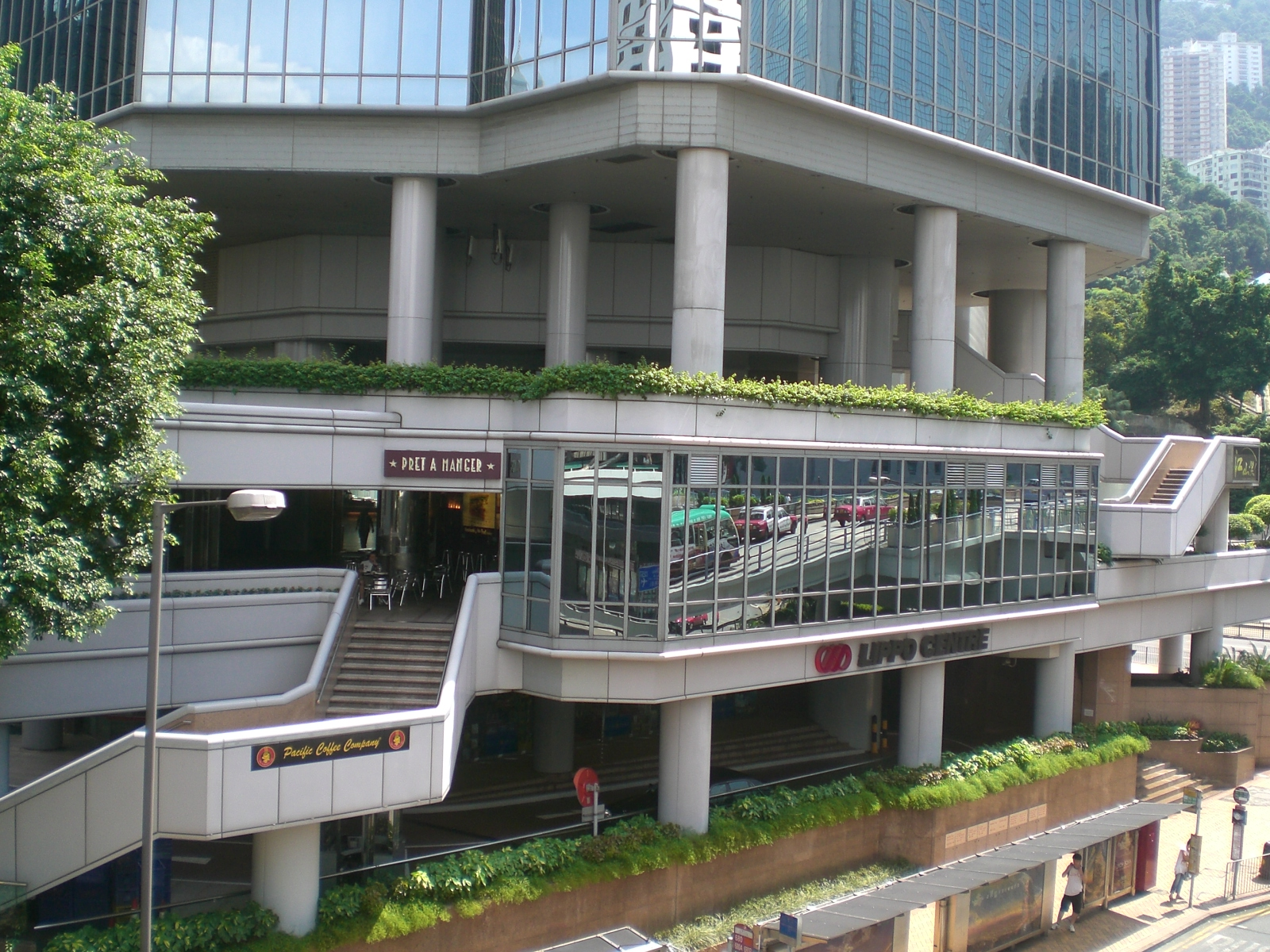 力寶中心Pret A Manger